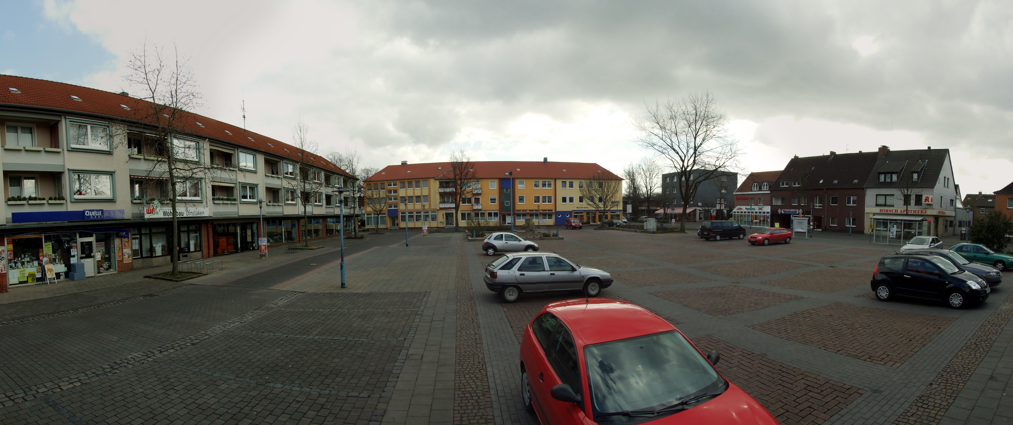 Market square of Friedrichsfeld in Voerde (Niederrhein)